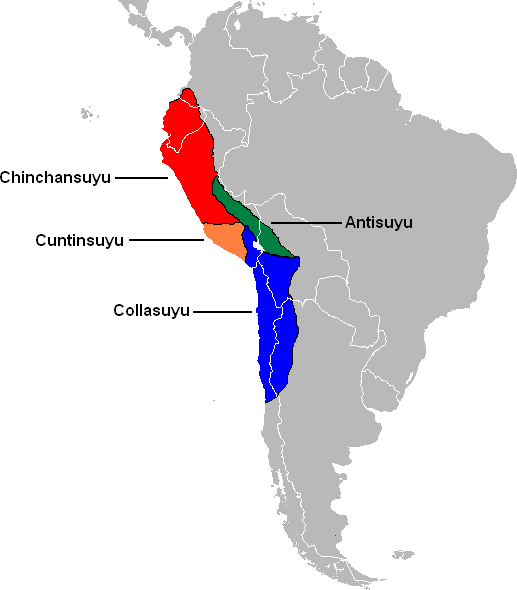 The Four Suyus of the Inca Empire. In red the Imperial Province of Chinchansuyu, in green Antisuyu, in blue Collasuyu, in orange Cuntisuyu.